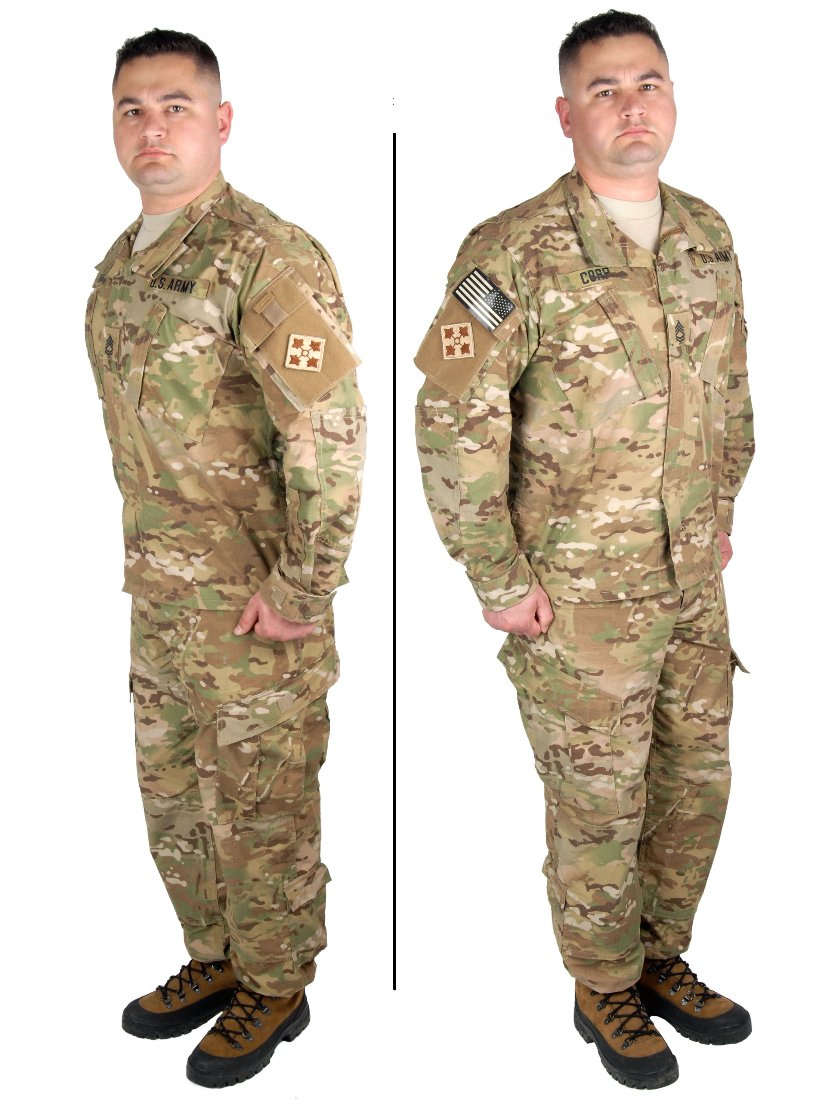 MultiCam Pattern for American soldiers in Afghanistan.